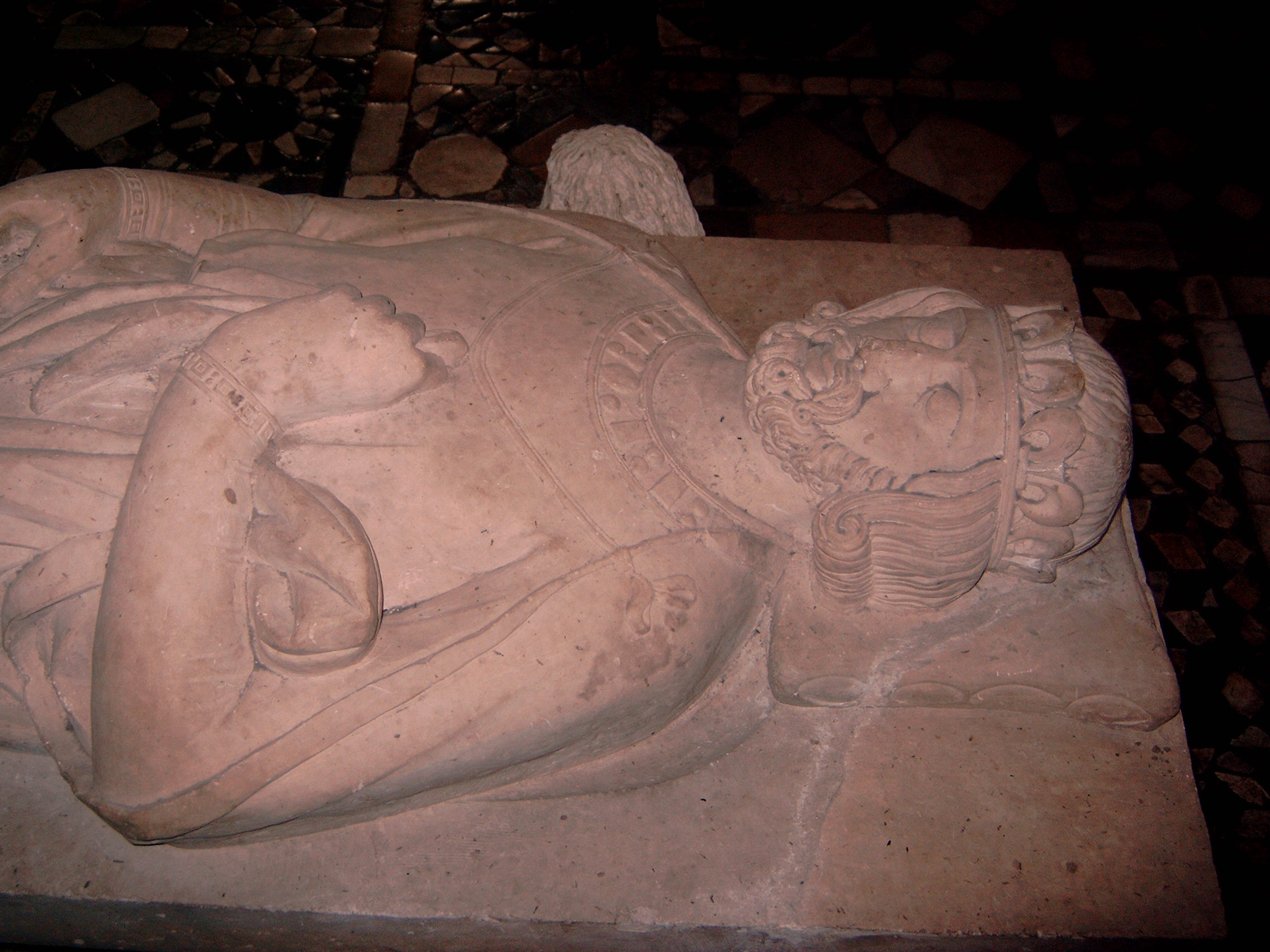 Philip I of France, part of the funeral tomb in the basilique de Saint-Benoît-sur-Loire